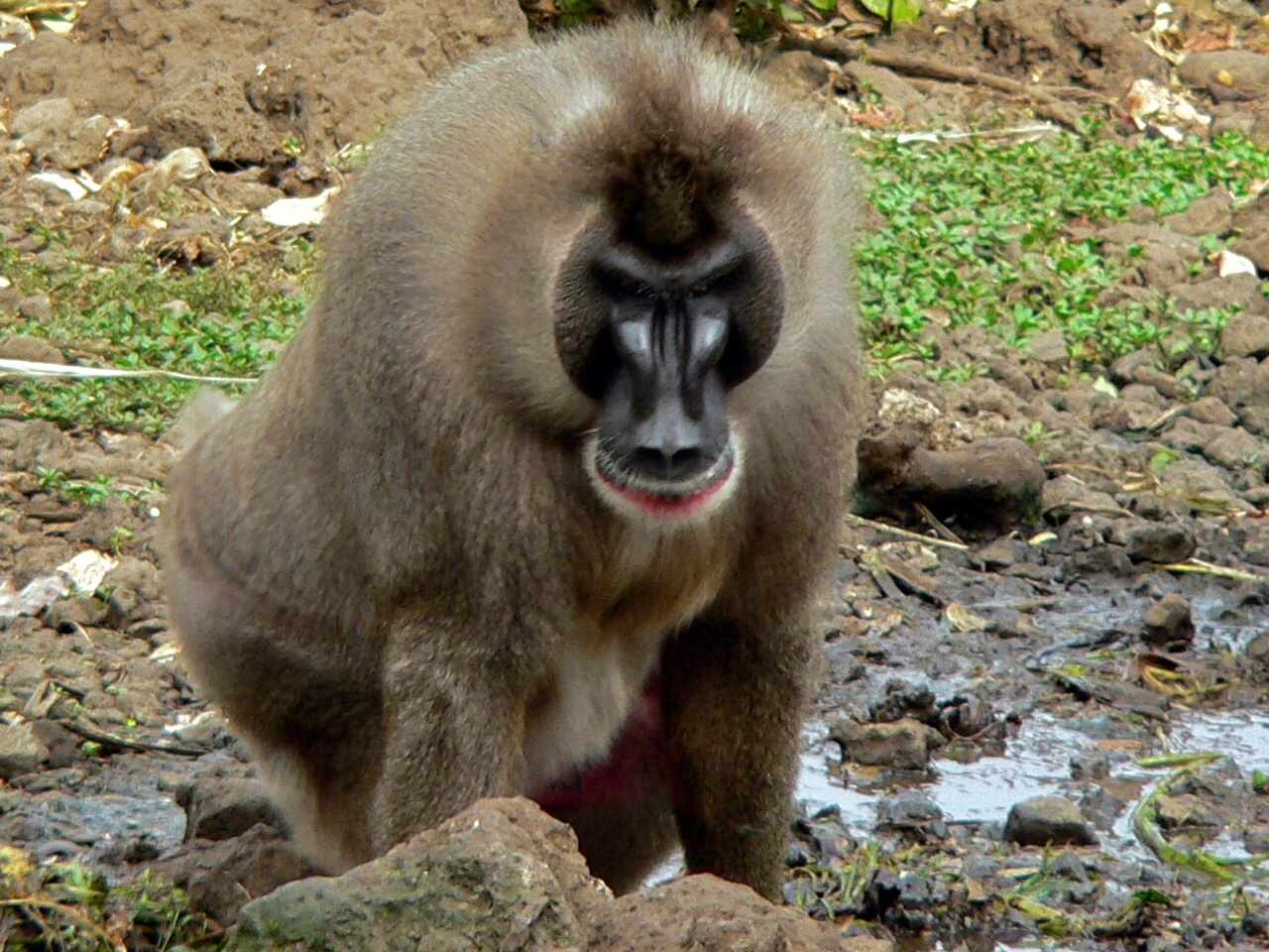 Limbe Wildlife Center, CAMEROON